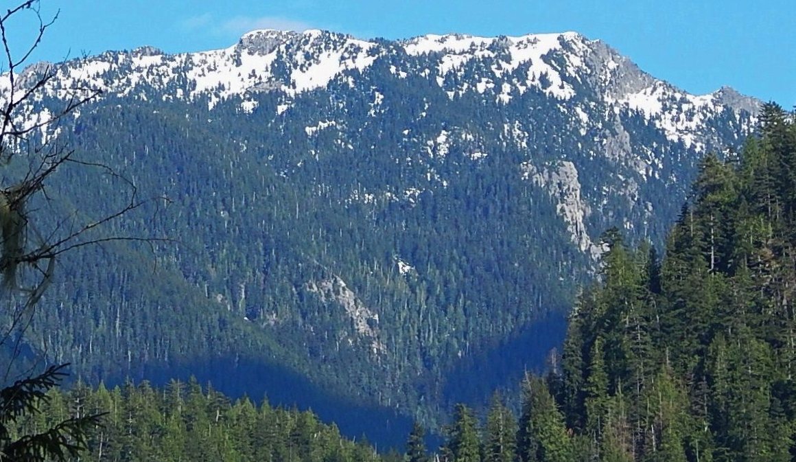 Preacher Mountain seen from Middle Fork Snoqualmie River valley